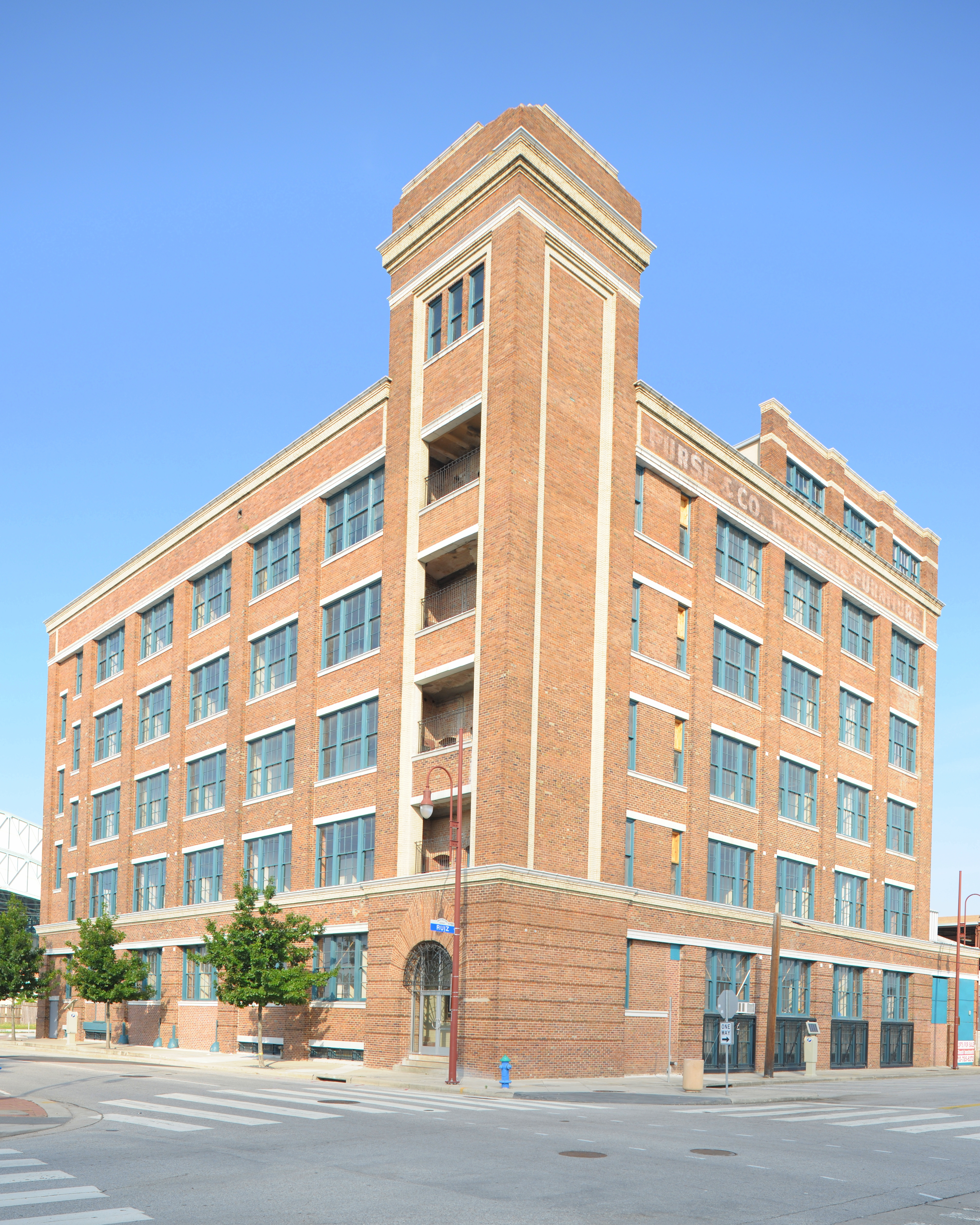 Dating from 1910, the National Biscuit Company Building, on the corner of Chenevert and Ruiz streets in Downtown Houston, is on the National Register of Historic Places.